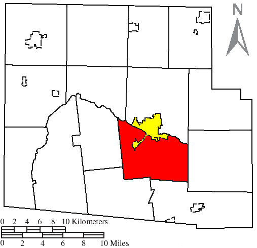 Made by the US Census and modified by myself to highlight the township